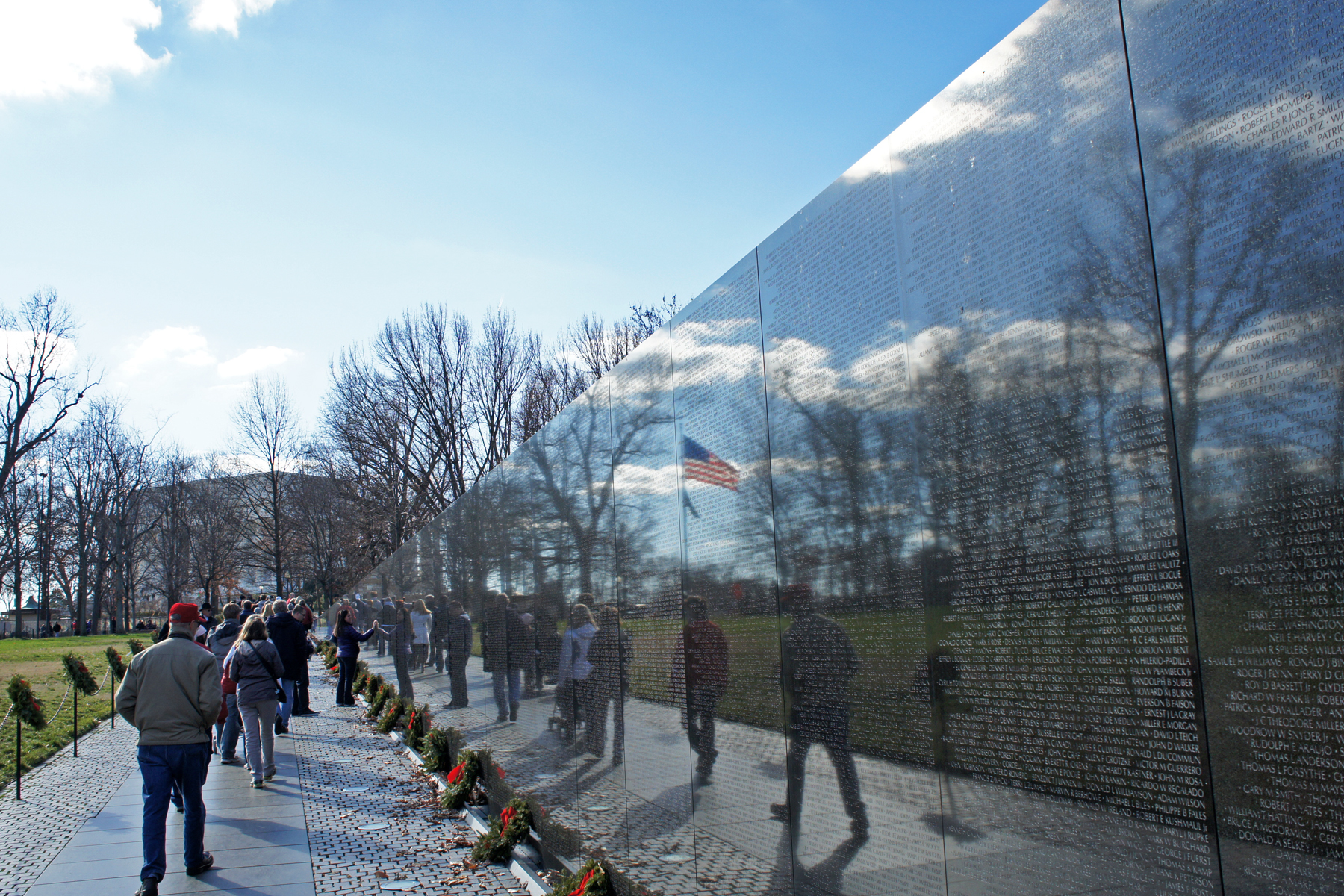 US flag reflexion on the Vietnam Veterans Memorial Wall, National Mall, Washington, D.C.